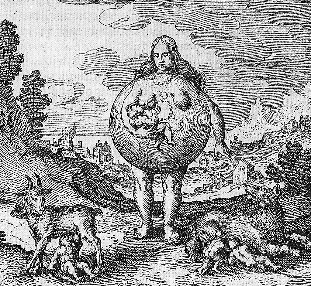 Emblem 2d: "Nutrix ejus terra est." of Michael Maier, Atalanta Fugiens, 1617/1618